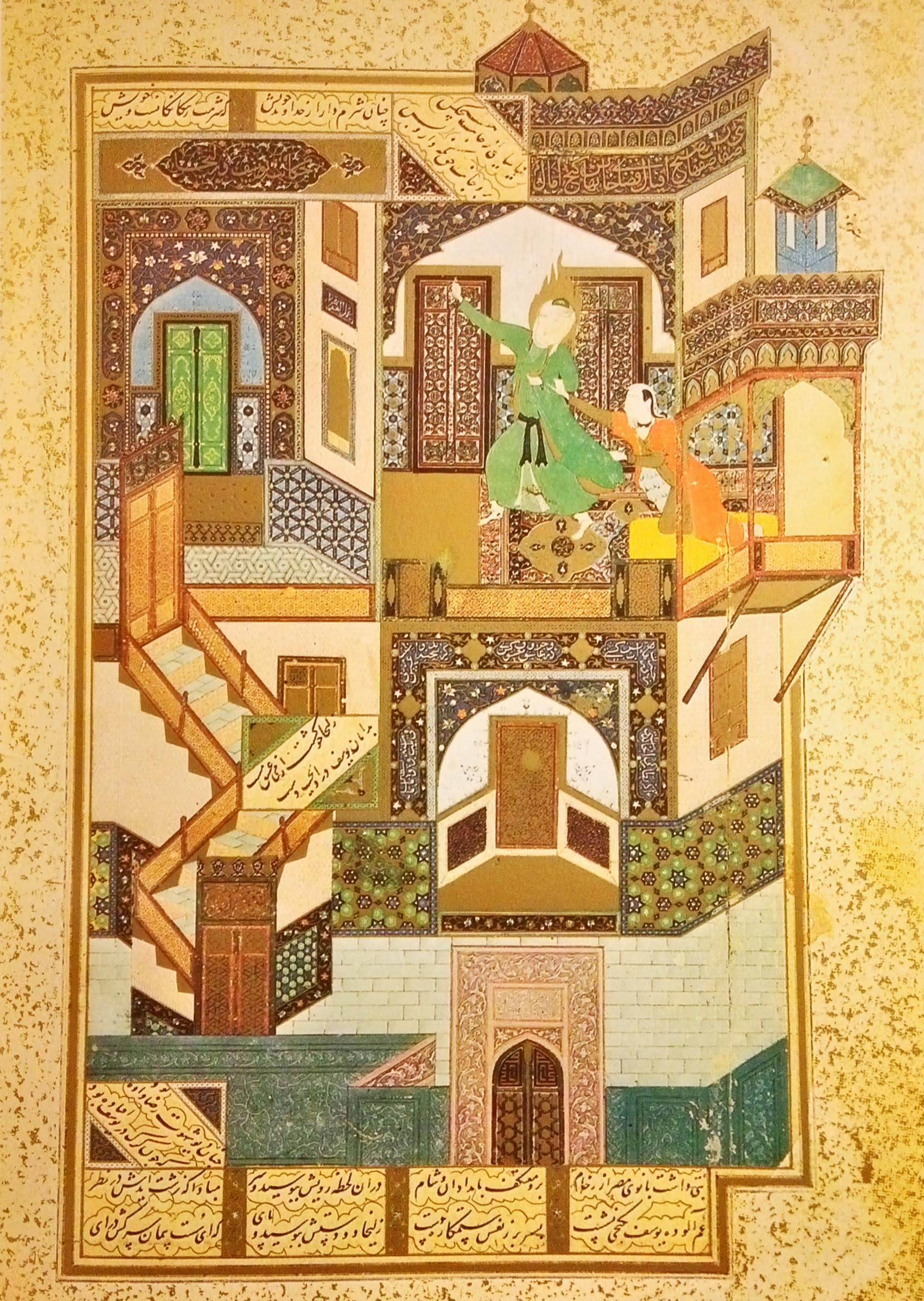 A miniature Persian from the Bostan book of Saadi, showing the incidence of Yusuf and Zuleikha.